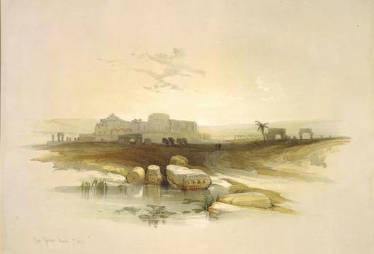 Painting of Bet Gubrinציור של בית גוברין הקדומה, צוייר בשנת 1839 על ידי דיוויד רוברסט